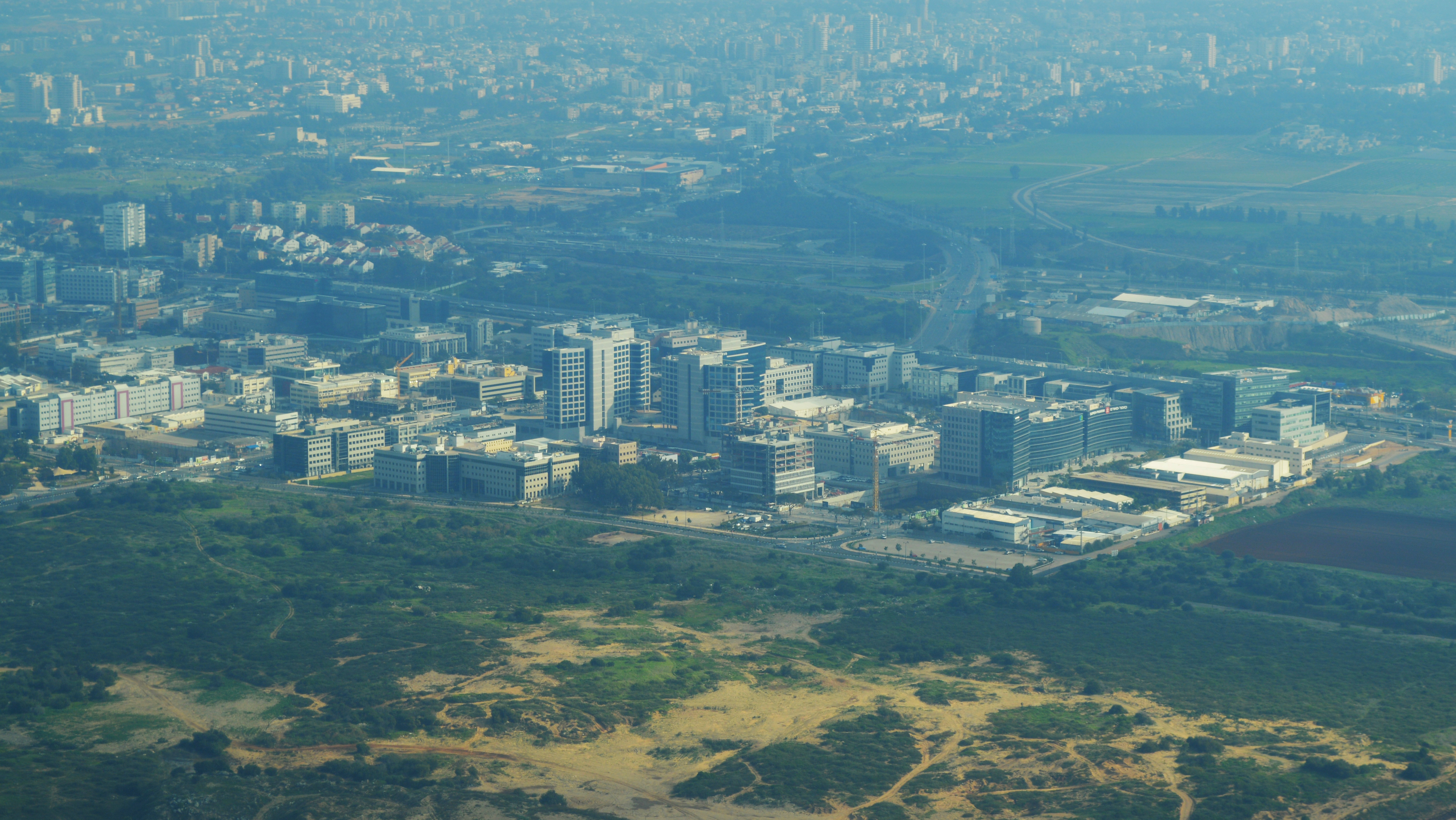 Herzliya Pituah Aerial View